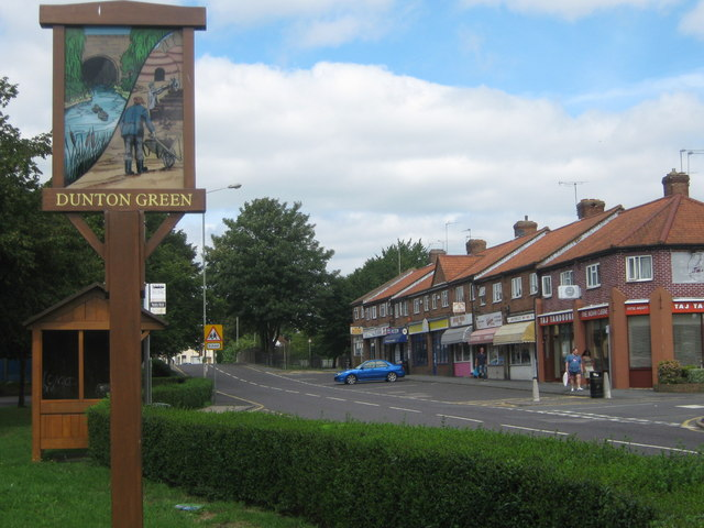 Dunton Green Village Sign On small green between Lusted Road (unseen on left) and A224 London Road (on the right). Unusually has plastic covering over the sign. Post has small metal plaque on it, which reads 'Erected on 11th October 2008. In celebration of the Centenary of the Parish of Dunton Green.'